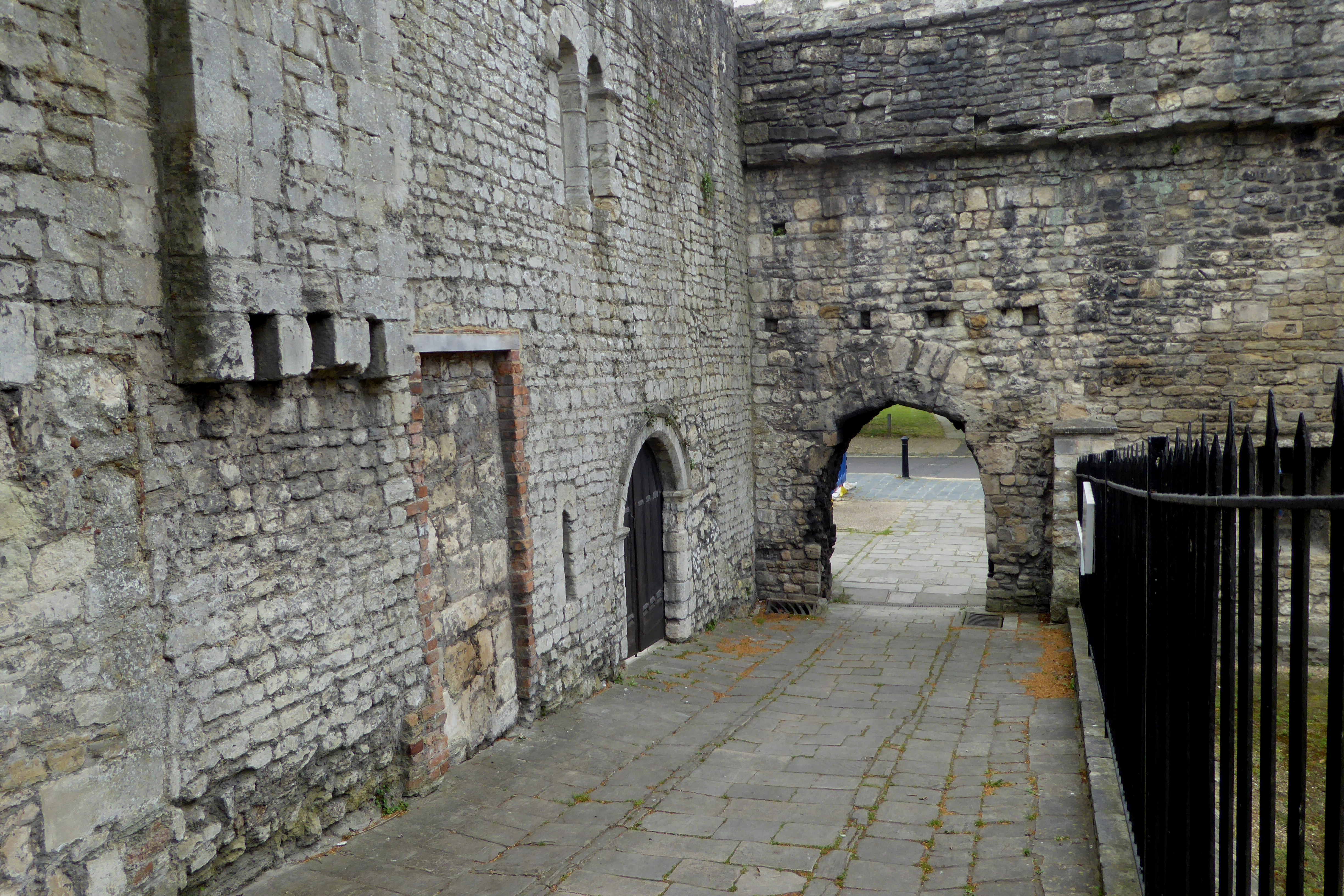 West facing view along Blue Anchor Lane in Southampton. To the left of the image of the northern wall of King John's Palace.